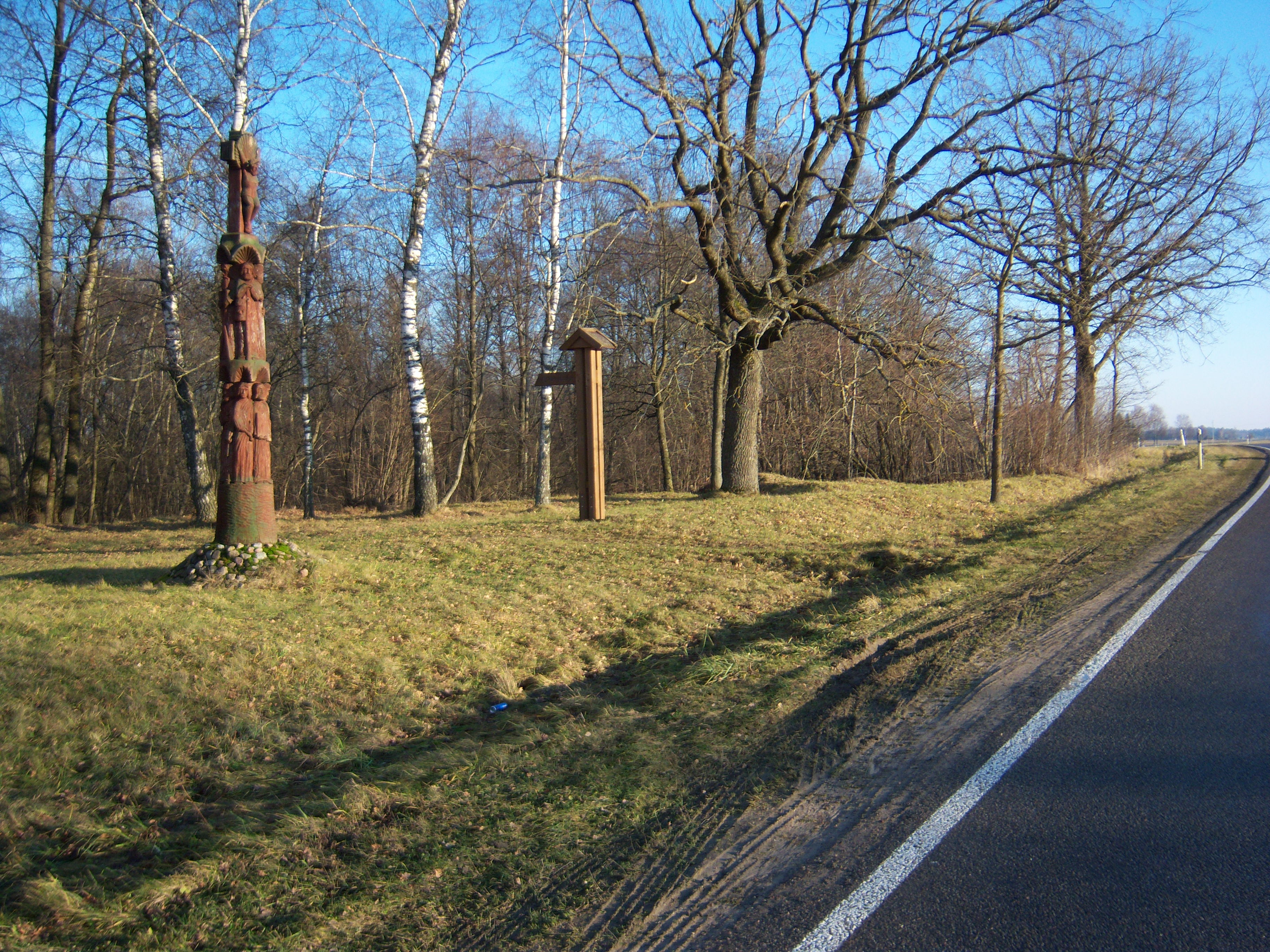 Puknaičiai, Raseiniai District, Lithuania